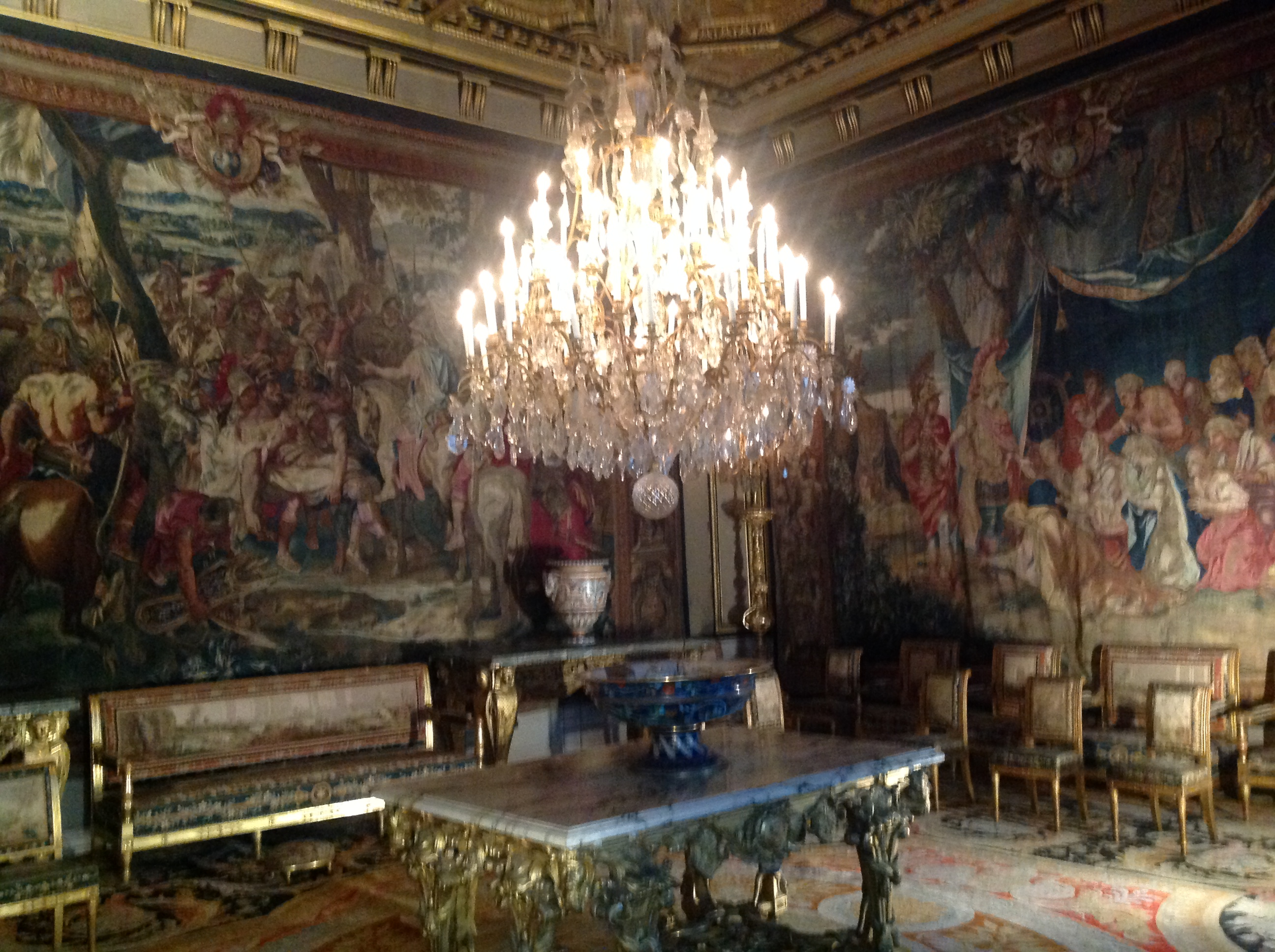 The Grand Salon of the Chateau of Fontainebleau